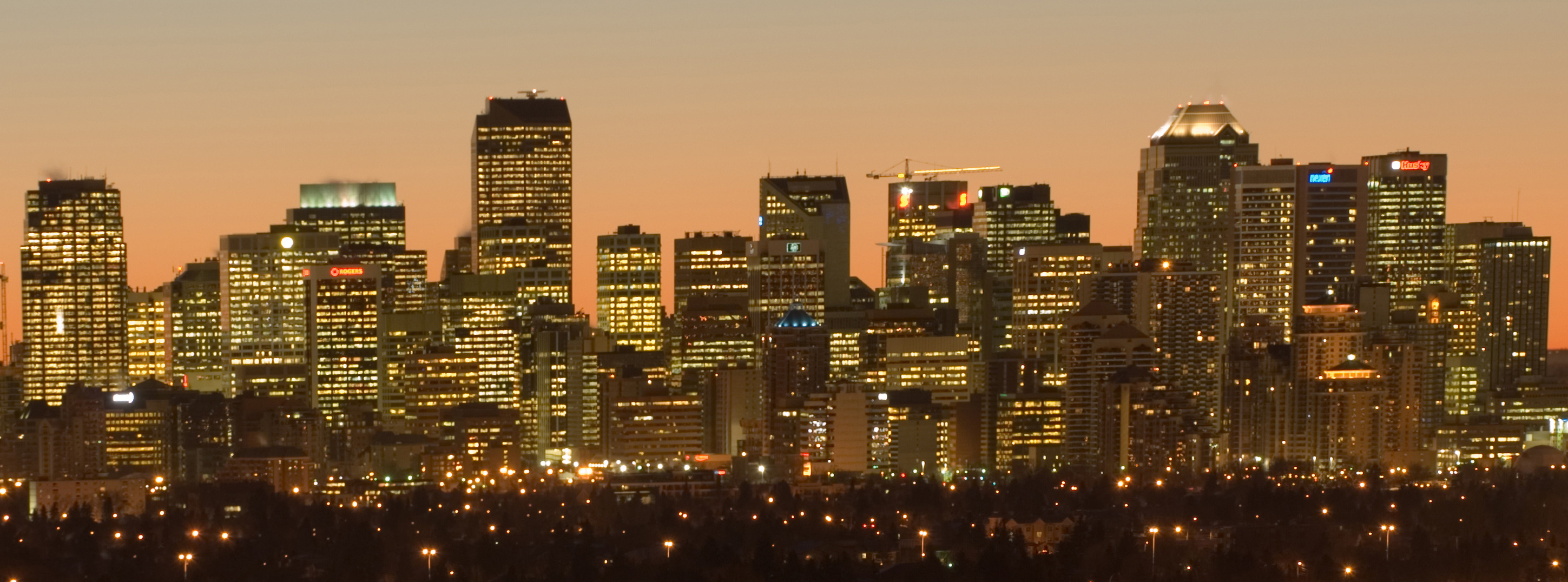 Downtown Calgary at dawn looking east from Edworthy Park. Photo by Chuck Szmurlo taken February 21, 2007 with a Nikon D200 and a Nikon 70-200 f2.8 lens.